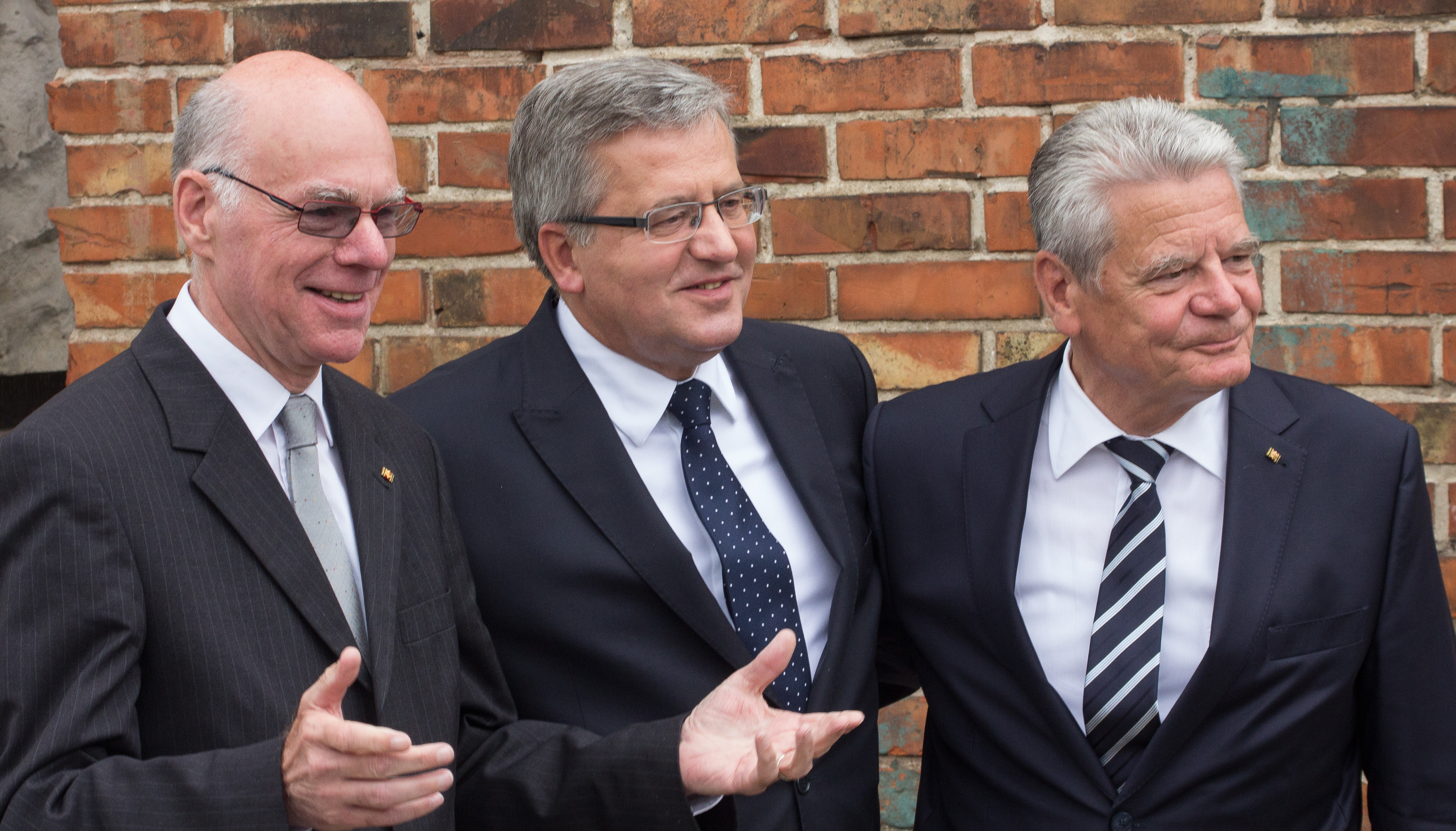 Bronisław Komorowski, Joachim Gauck and Norbert Lammert right after the hour of commemoration for the 75th anniversary of the beginning of World War II in front of Gdansk wall-part at the north eastern corner oft the Reichstag building